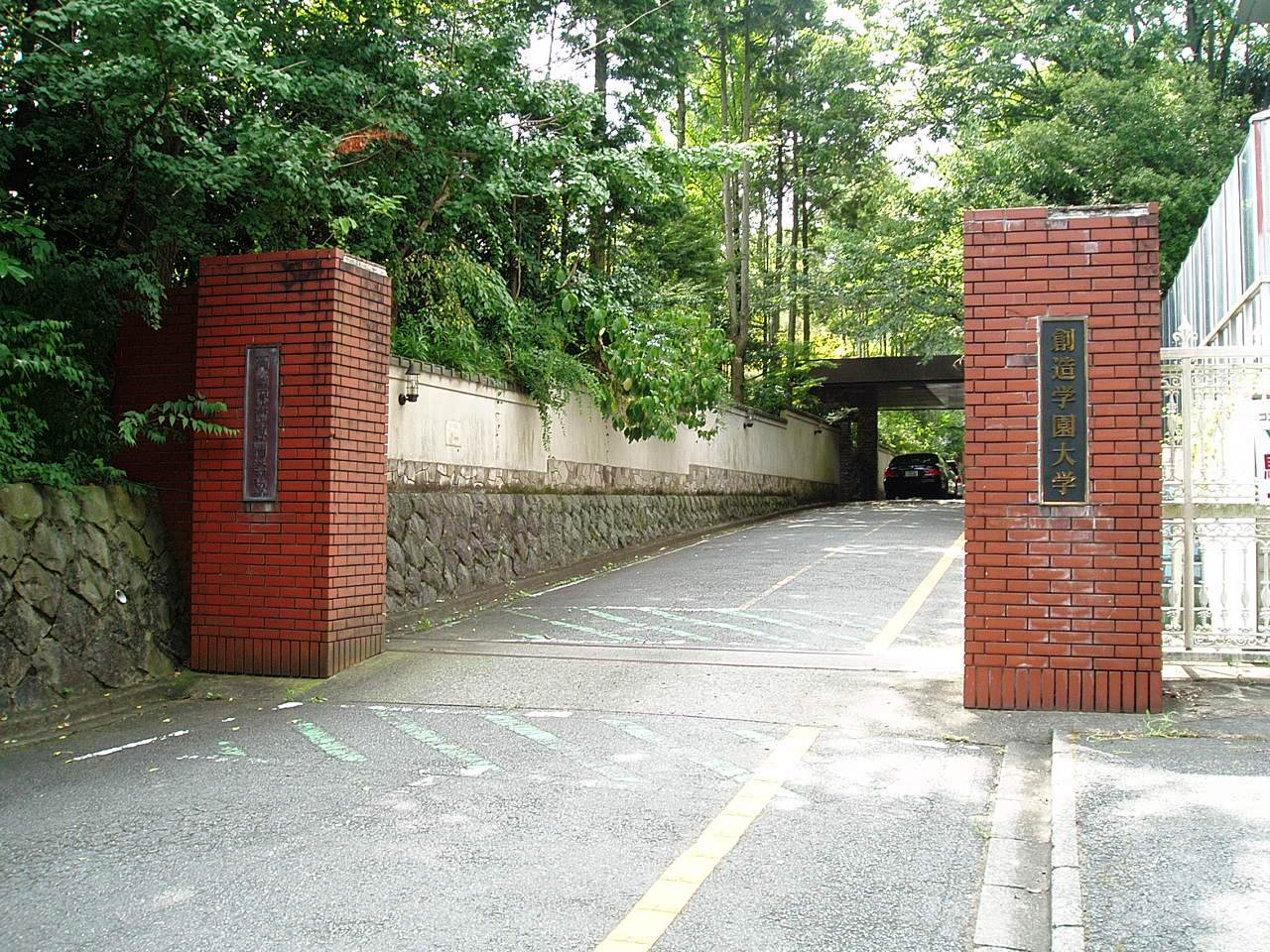 The main entrance to Nakayama Campus, the University of Creation; Art, Music & Social Work (Souzou Gakuen University), located in Takasaki, Gunma Prefecture, Japan.